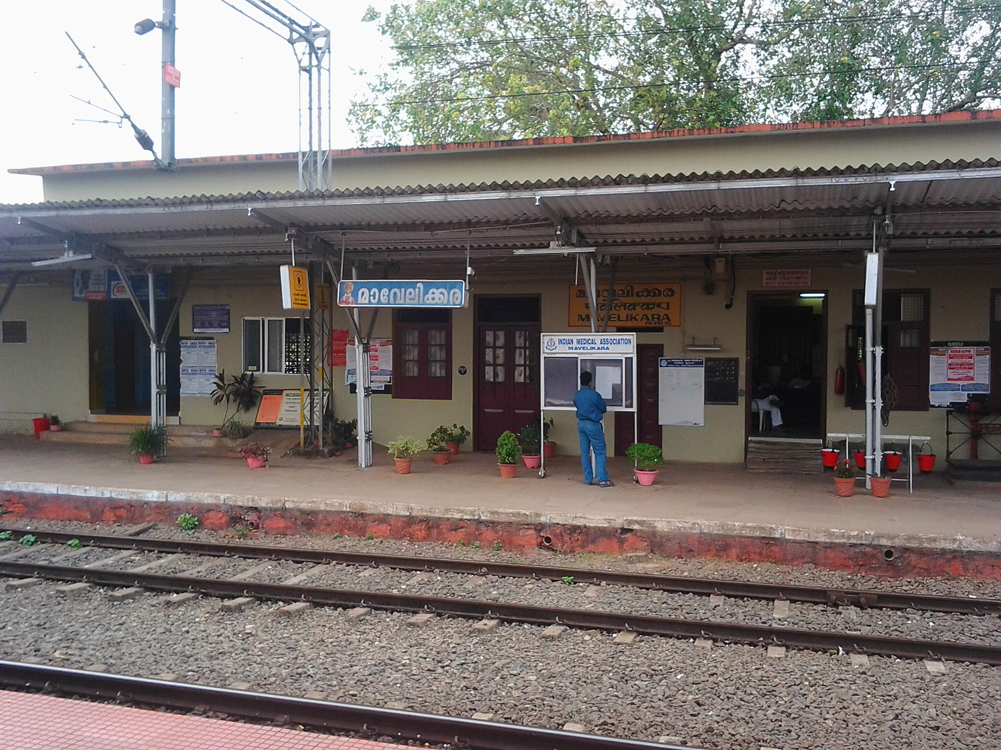 Mavelikara railway Station